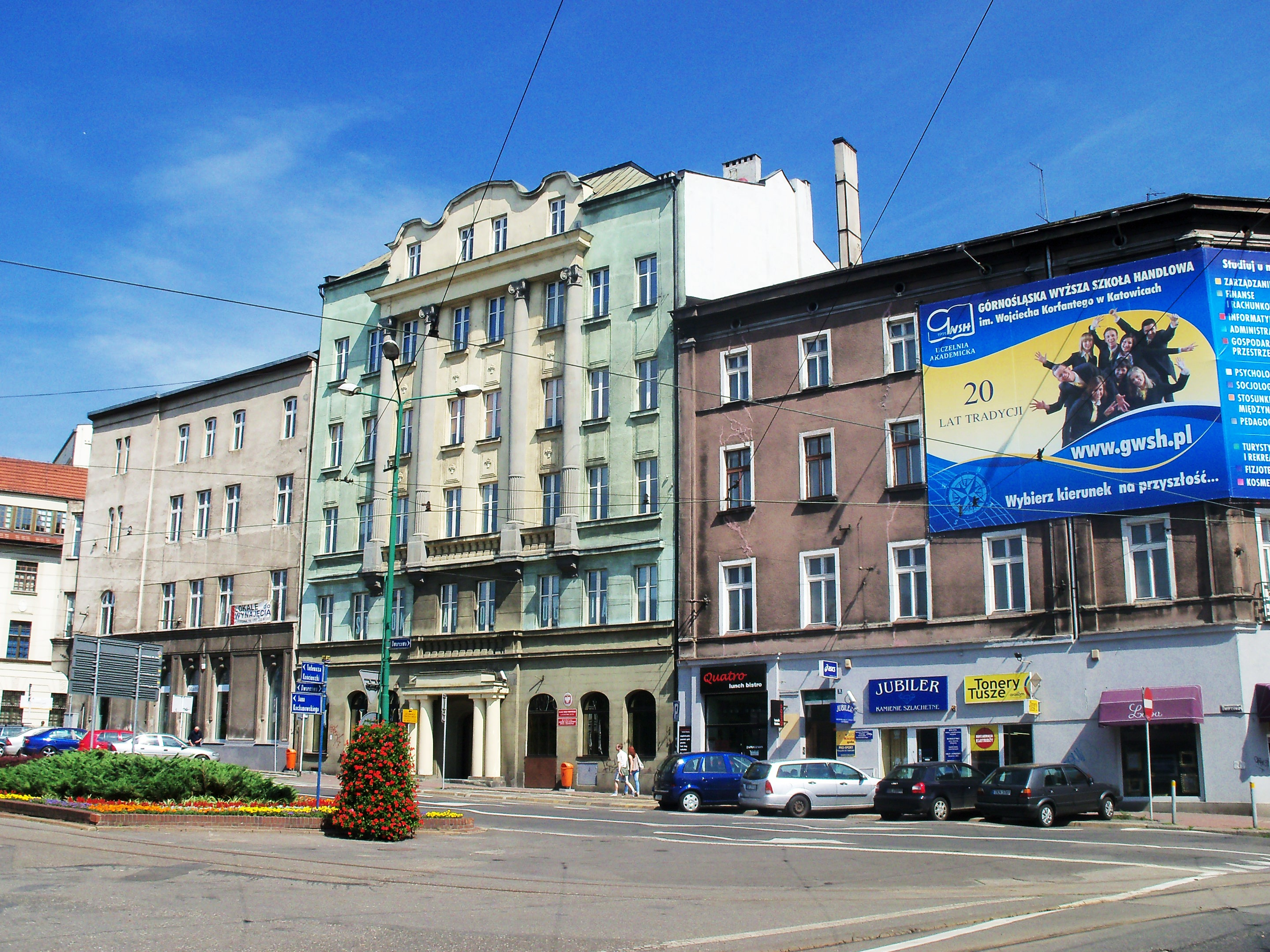 Dworcowa Street in Katowice